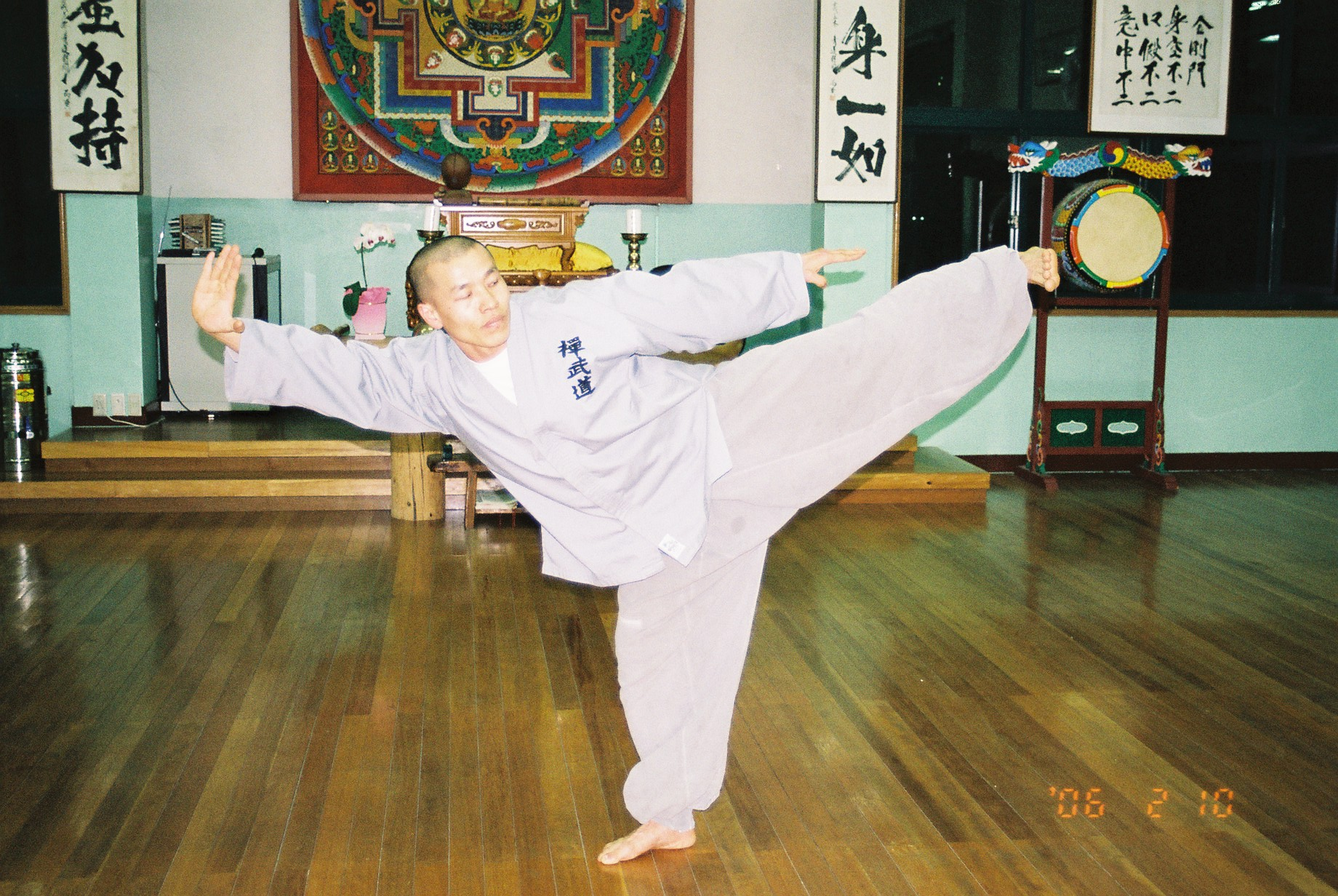 Golgulsa Monk Chul-An practics Sonmudo. Photo by Greg Brundage